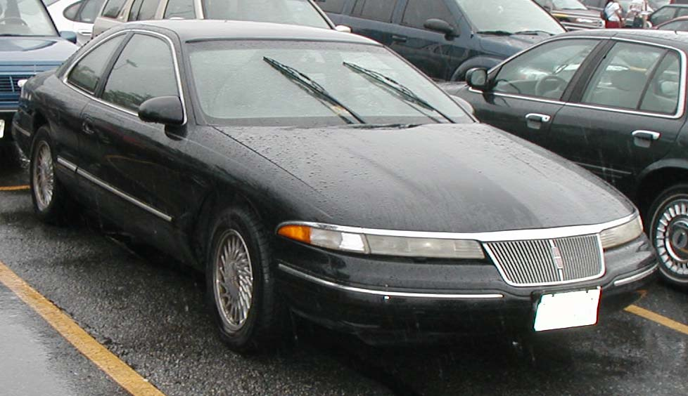 1993-1996 Lincoln Continental Mark VIII photographed in USA.